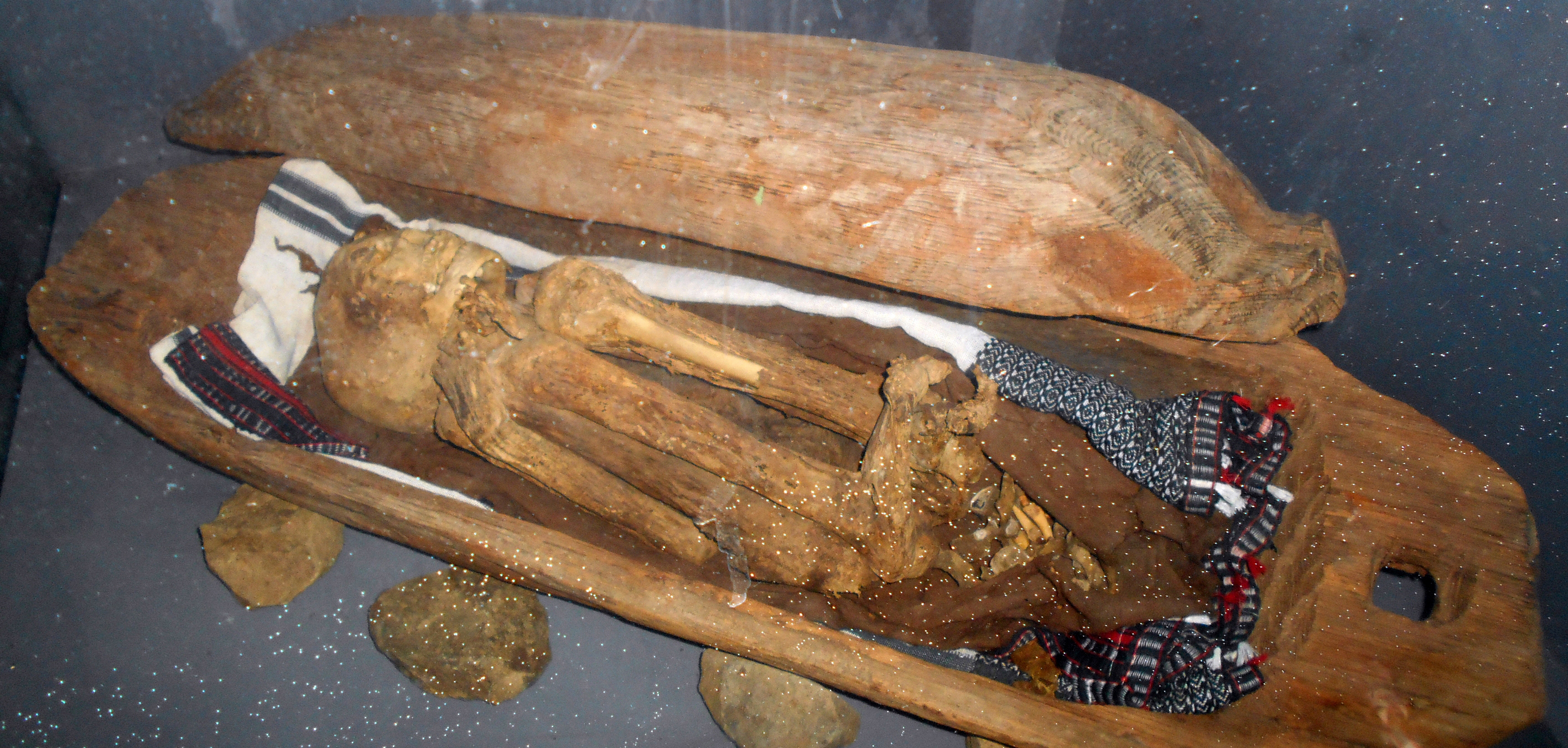 Photo taken through a glass display case